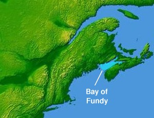 Bay of Fundy © 2004 Matthew Trump based on NASA image in public domain